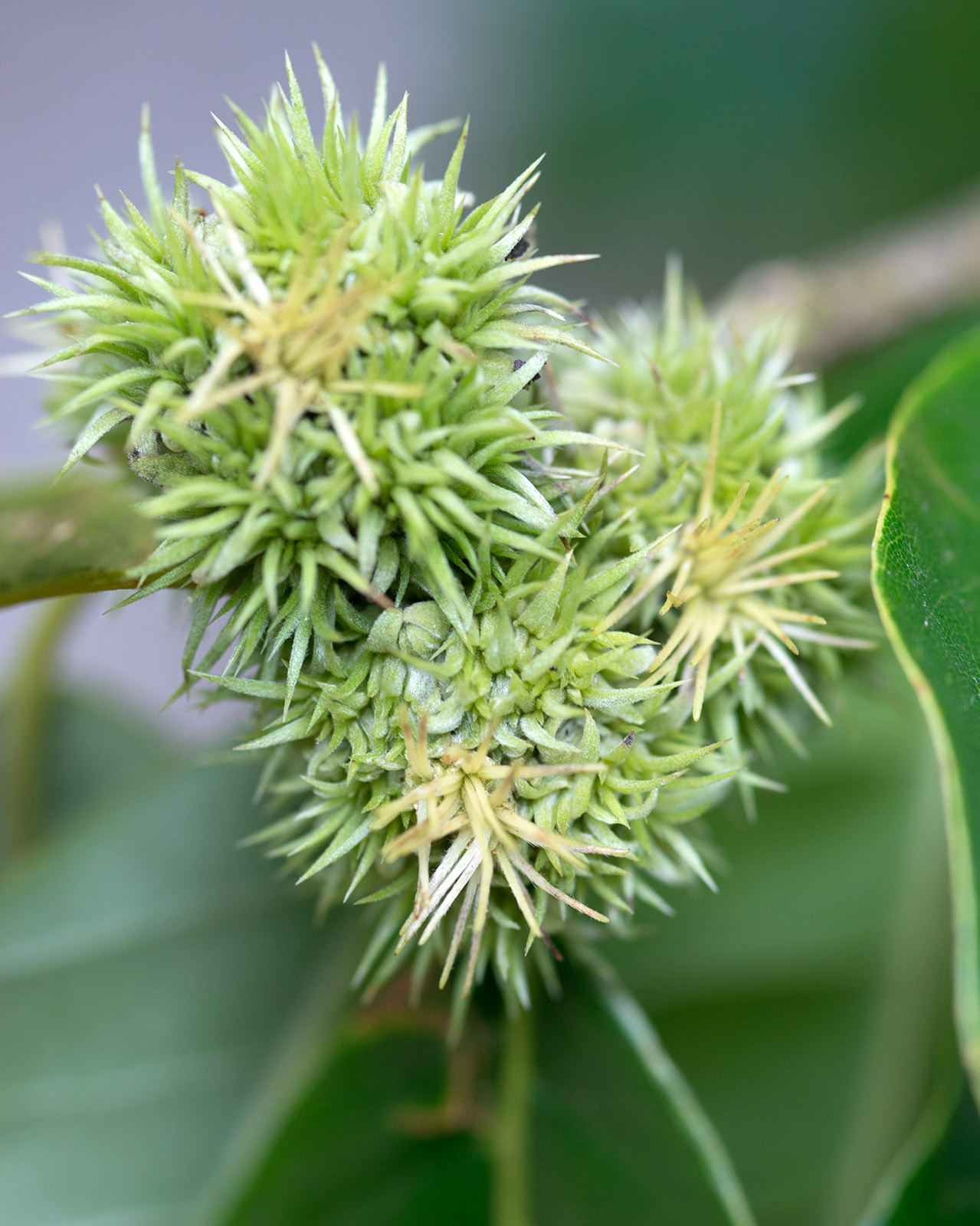 Castanea mollissima (Chinese Chestnut) developing fruit